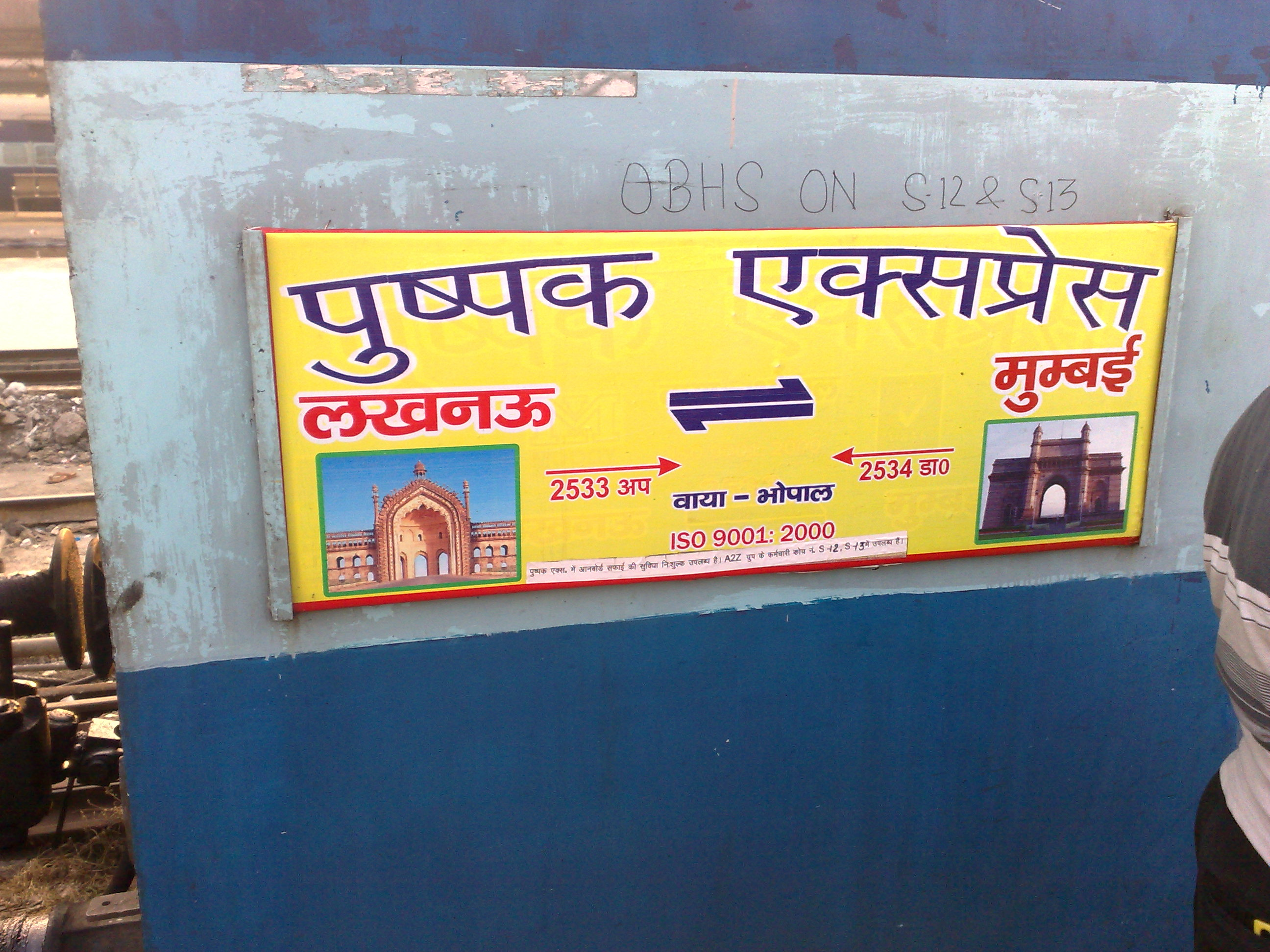 Trainboard - 12534 Pushpak Express